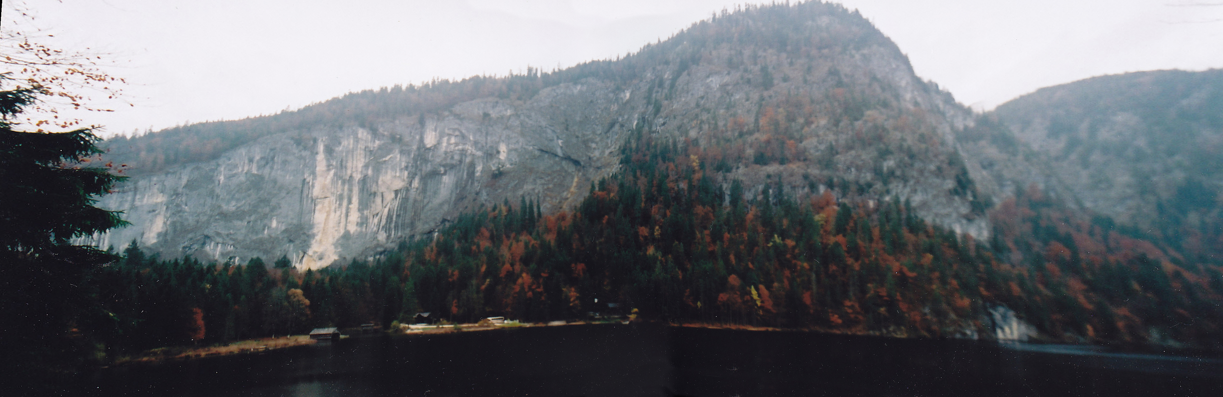 The Toplitzsee from the south shore looking toward the entrance of the lake at its western end